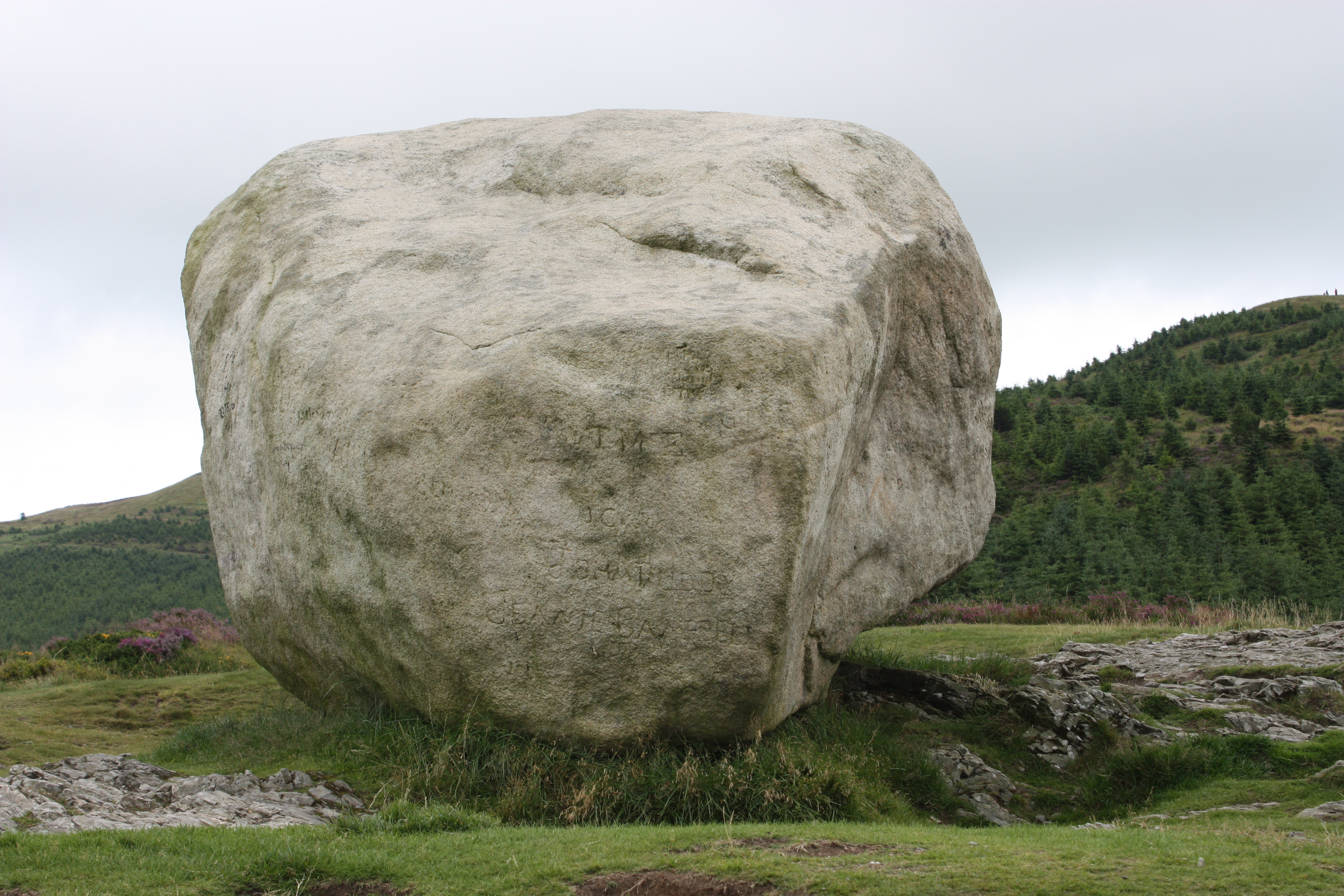 Cloughmore Stone, Rostrevor Forest, Rostrevor, County Down, Northern Ireland, July 2010